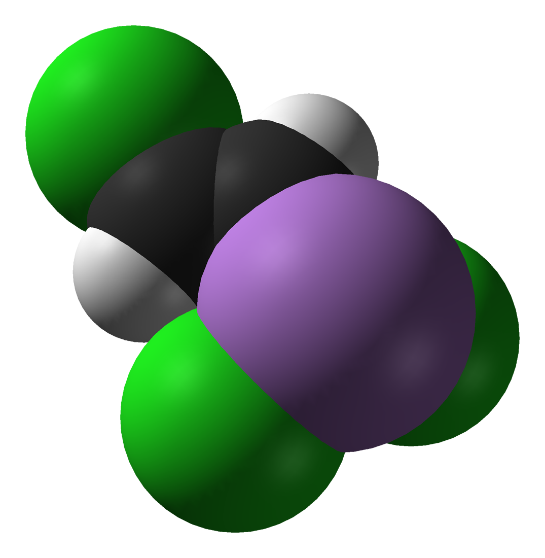 Space-filling model of the lewisite molecule, C2H2AsCl3. Structure calculated with MP2 using the 6-31G* basis set in Spartan Student Edition version 4.1. Hydrogen Carbon Arsenic Chlorine